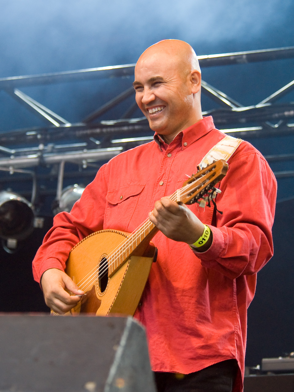 Abderrahmane Abdelli playing Algerian mandole, 0110 concert on 1 November 2006 in Gent, Belgium